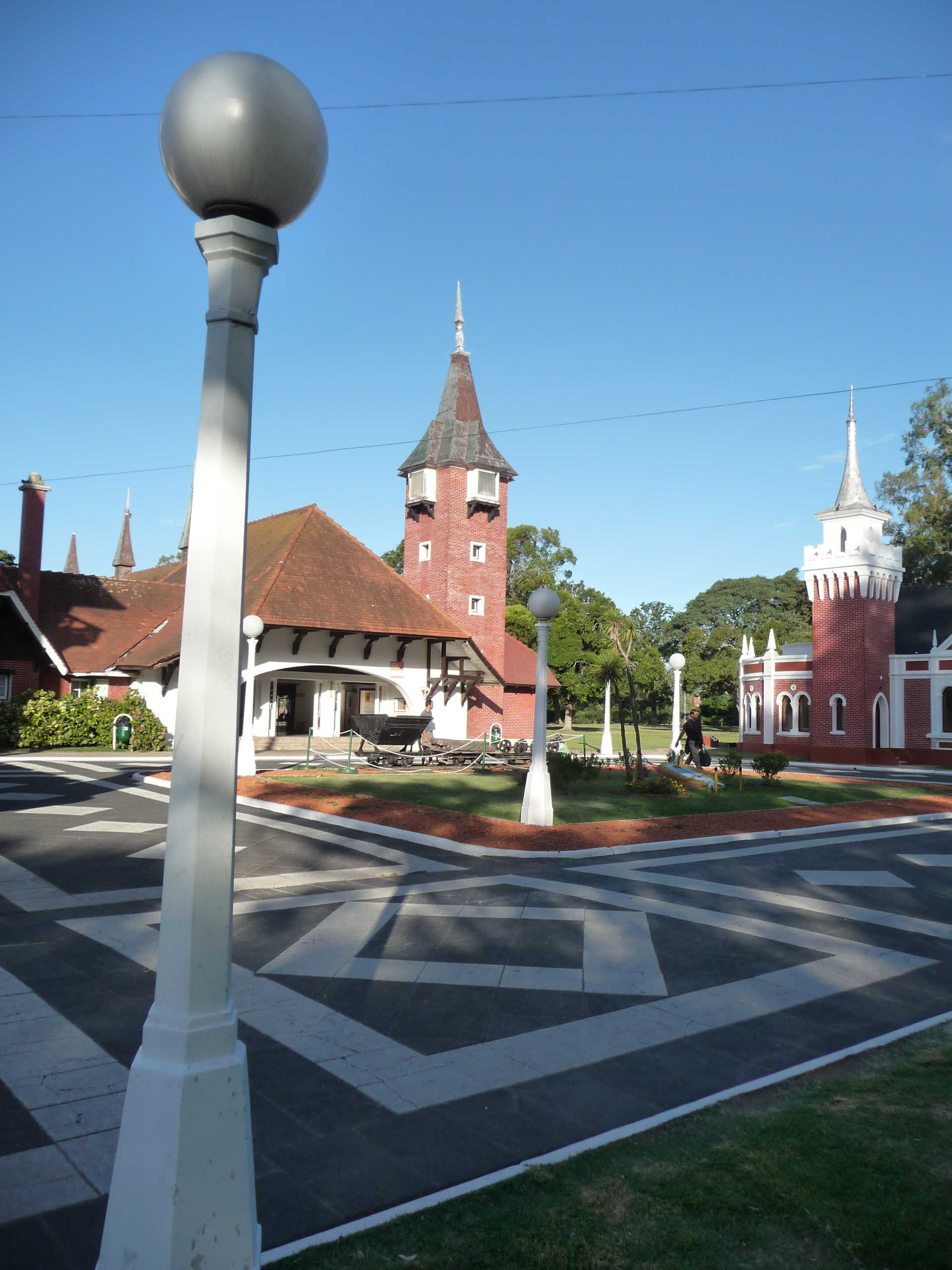 Main train station in the República de los Niños